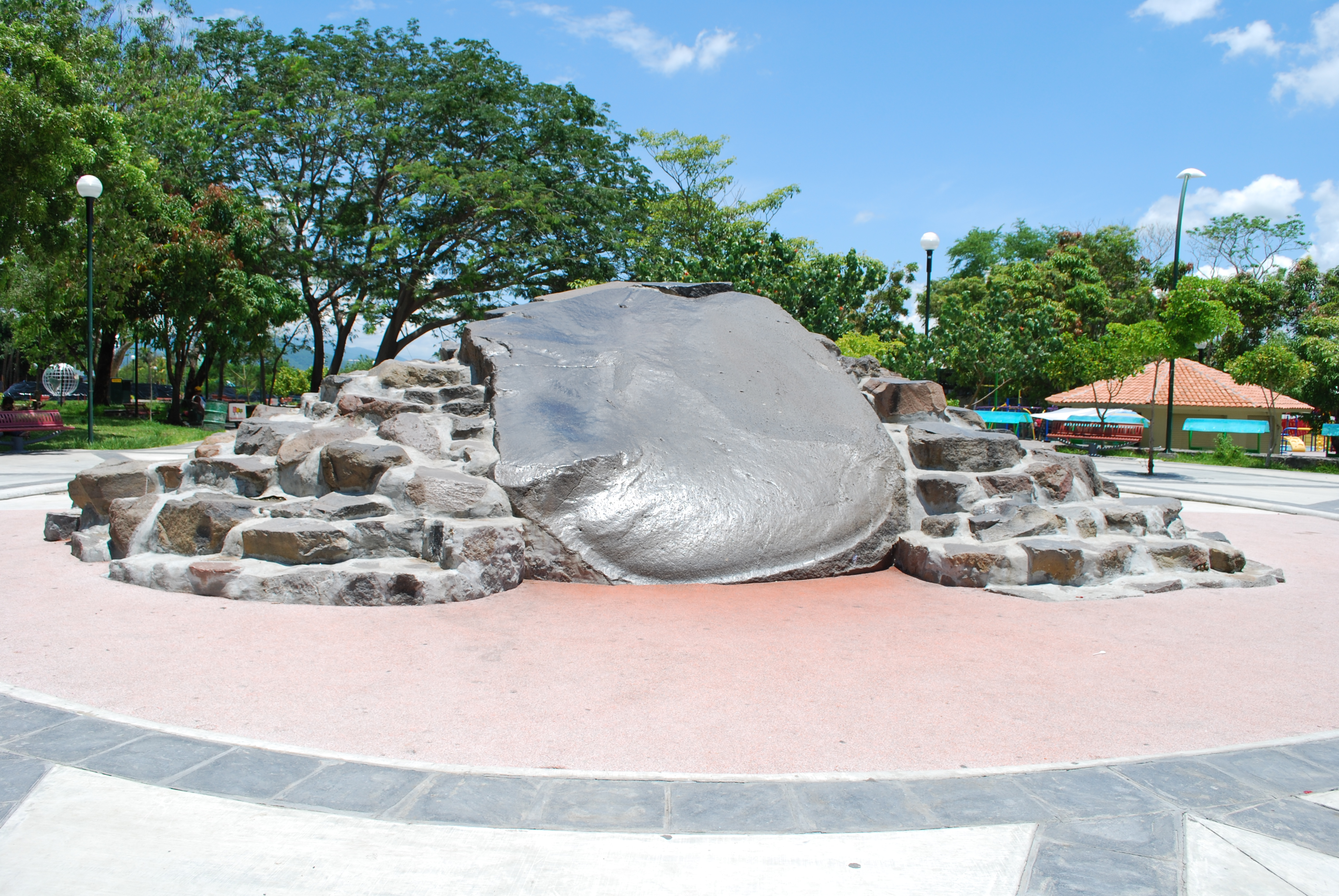 The Piedra Lisa in Colima, Mexico